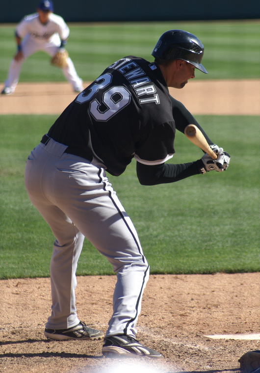 Chris Stewart